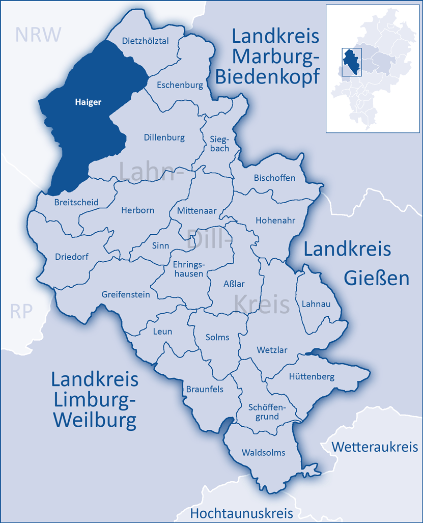 The map shows a district in the area of Lahn-Dill-Kreis